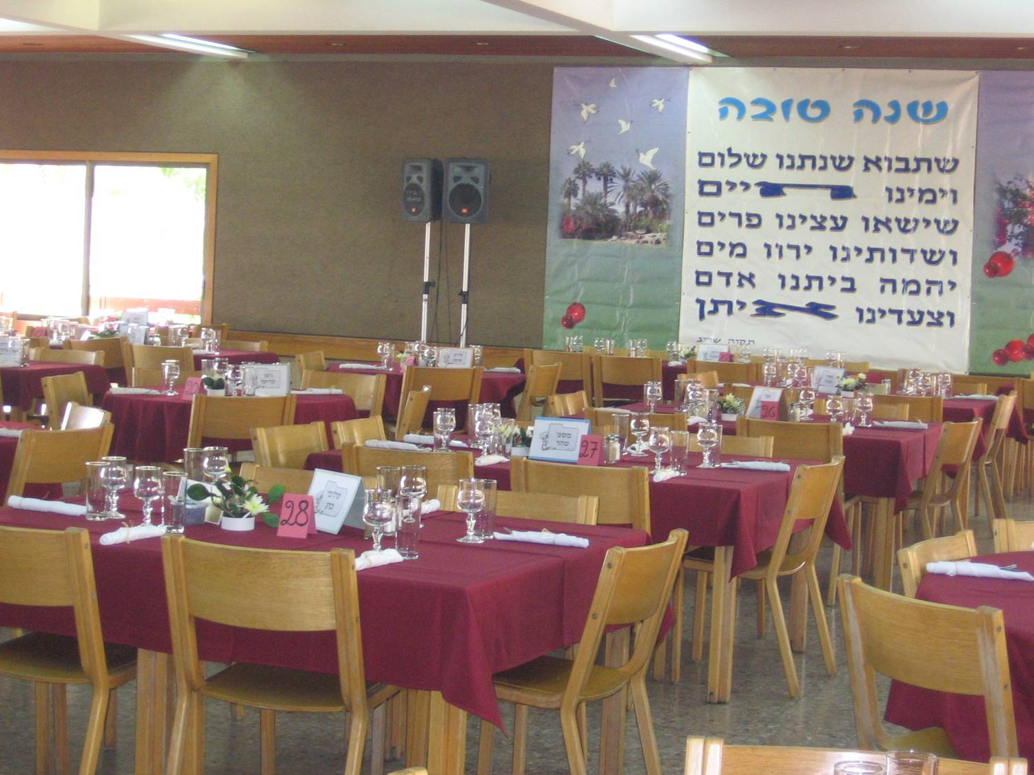 Rosh hashana, Jewish holidays